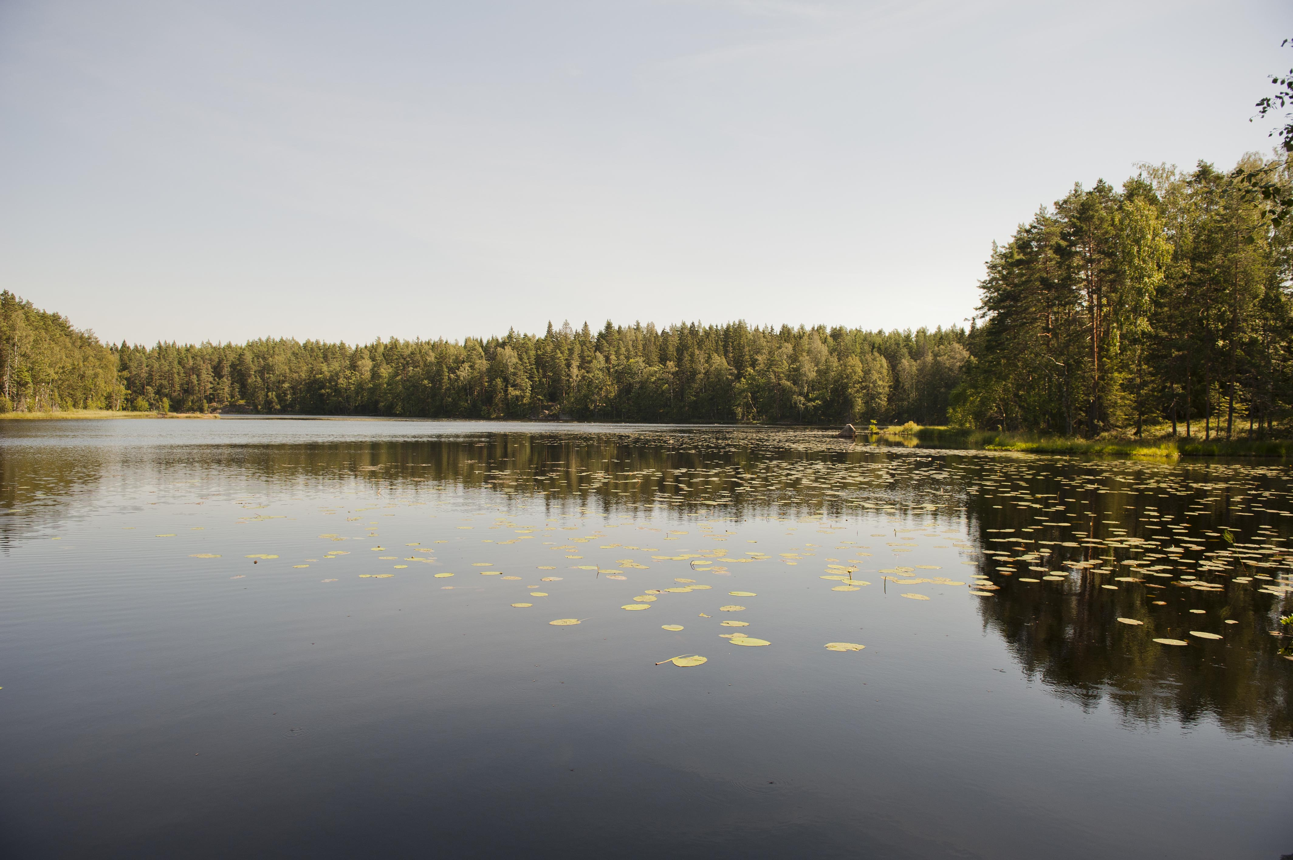 One of the lakes in Nuuksio national park, surrounded by deep forest.